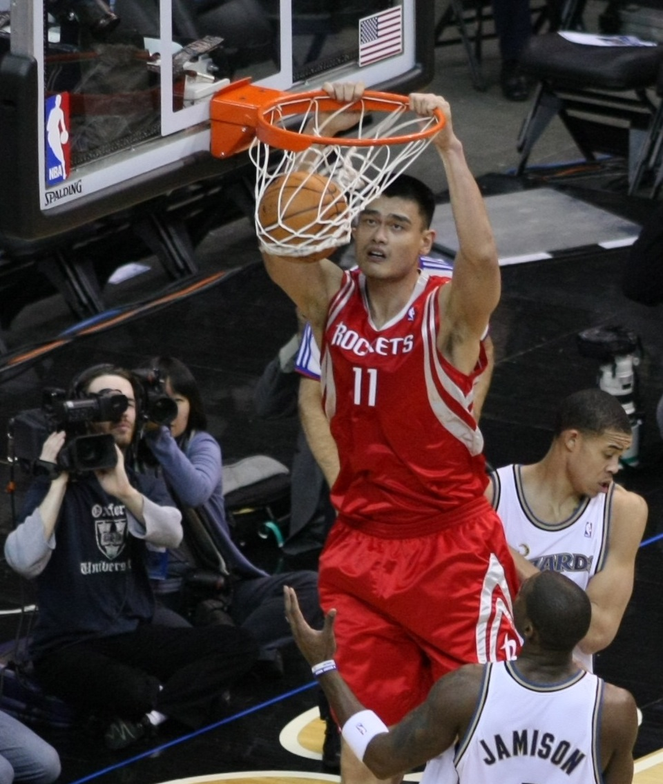 Yao Ming dunks during the Washington Wizards v/s Houston Rockets game on Nov 21, 2008 at Verizon Center in Washington, D.C.